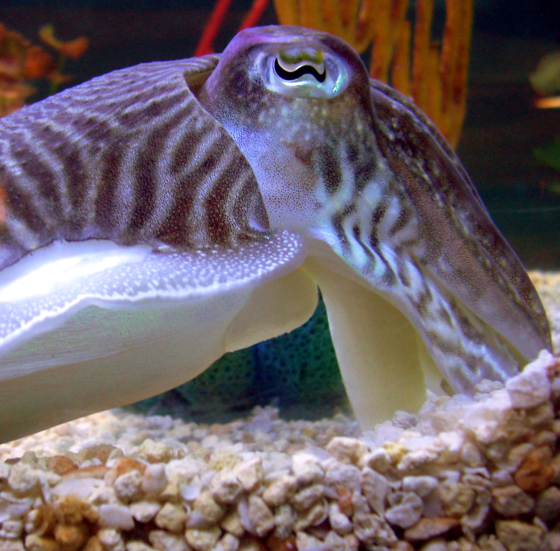 Close up of a cuttlefish head, showing the well developed eye.